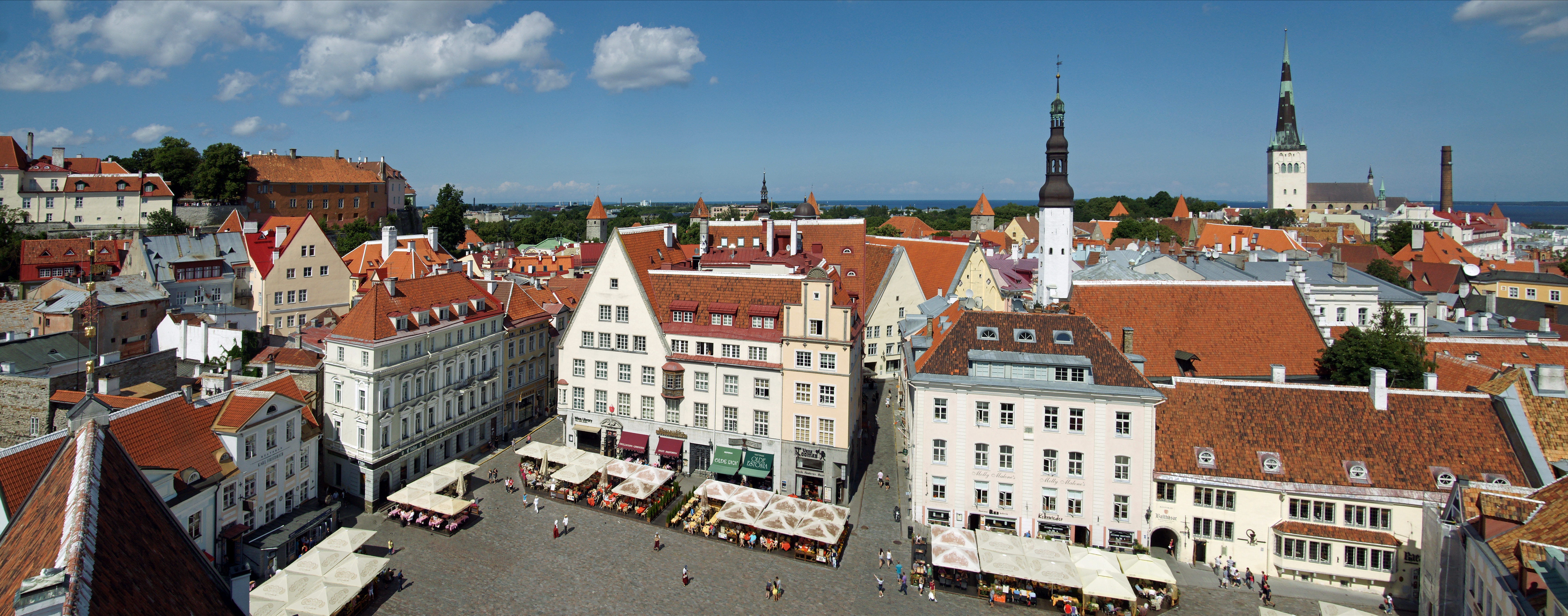 The Town Hall Square (Raekoja plats) in Tallinn, Estonia.